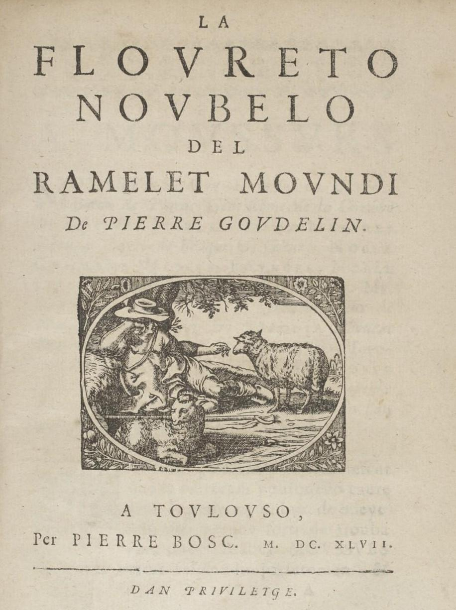 Cover of an early edition (1647) of Pèire Godolin's Ramelet Moundi